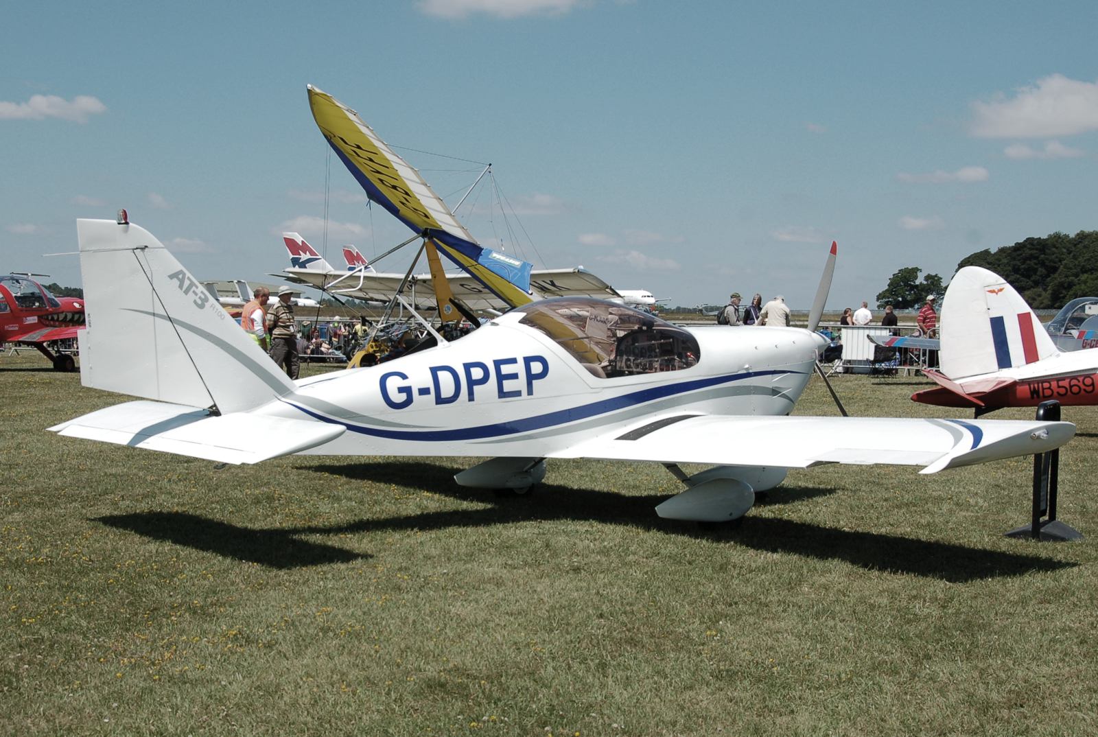 Aero AT-3 R100 (G-DPEP)from the Polish company “Aero SP Z OO”” on static display at the Cotswold Air Show at Cotswold Airport, Kemble, Gloucestershire, England.